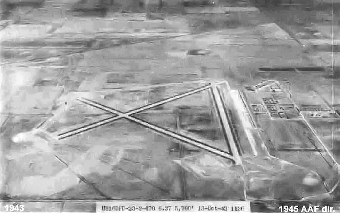 Dallam Field, Texas, 13 October 1943